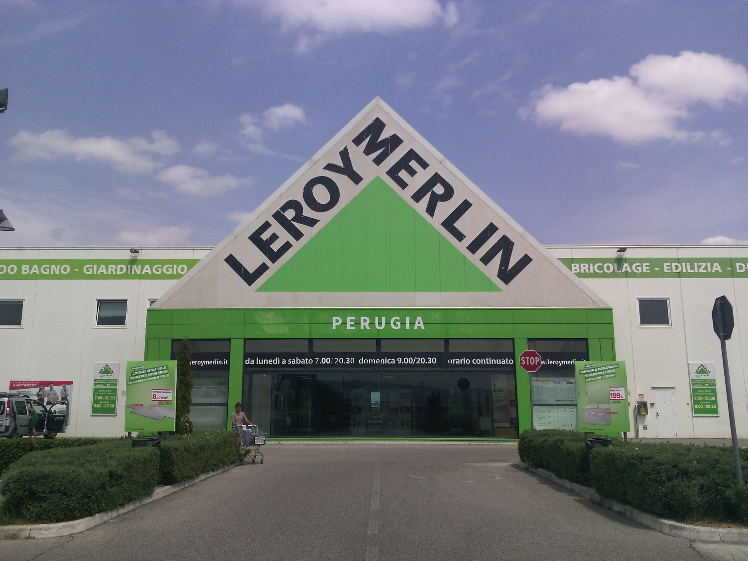 A Leroy Merlin S.A. store in Ospedalicchio, a "frazione" of Bastia Umbra (Umbria, Italy), August 8, 2019.